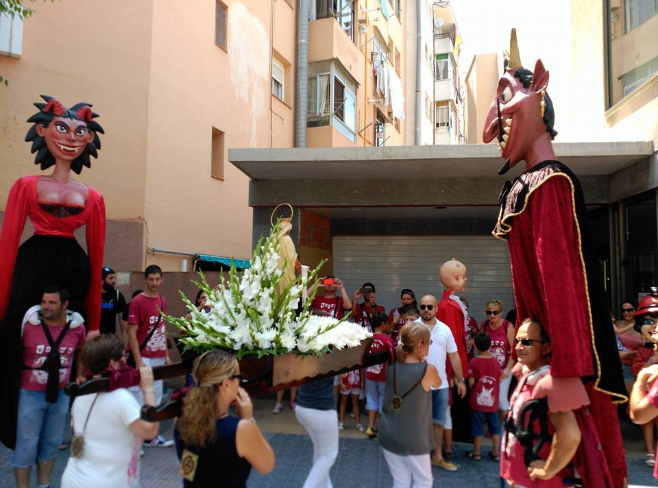 Festes Barri del Carme